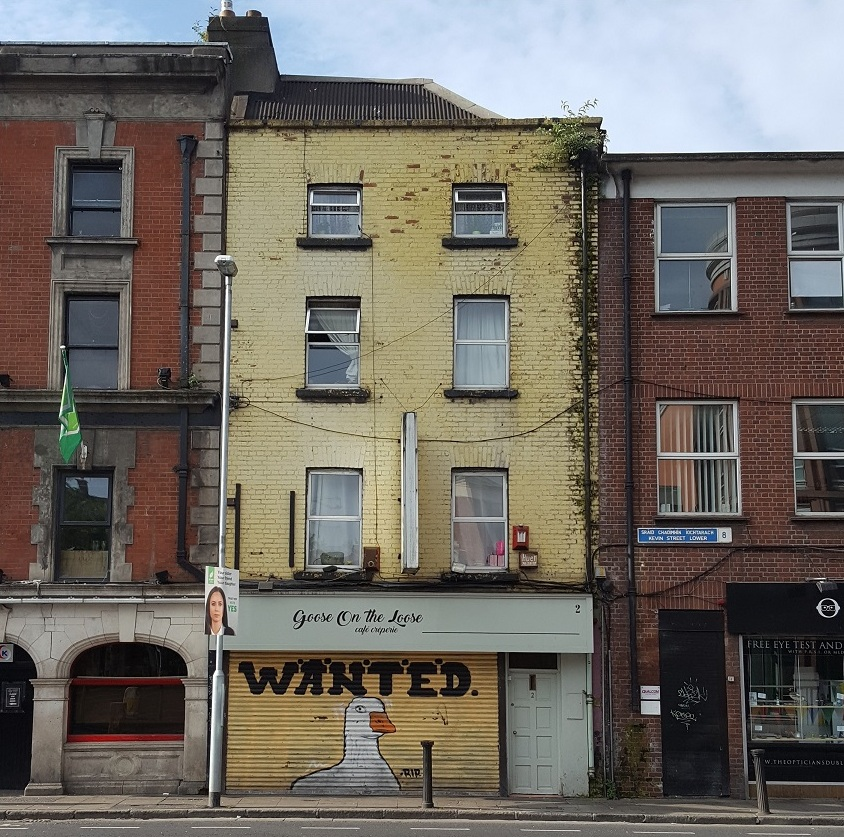 Tensions within the Republican Movement came to a head in late December 1969 – early January 1970. A splinter group emerged in both the army and the party that rejected the leadership of the Army Council. These formed what they called a Provisional Army Council. The part of the Sinn Fein party allied to this new group used as its new head office party facilities in number 2 Kevin Street in Dublin.